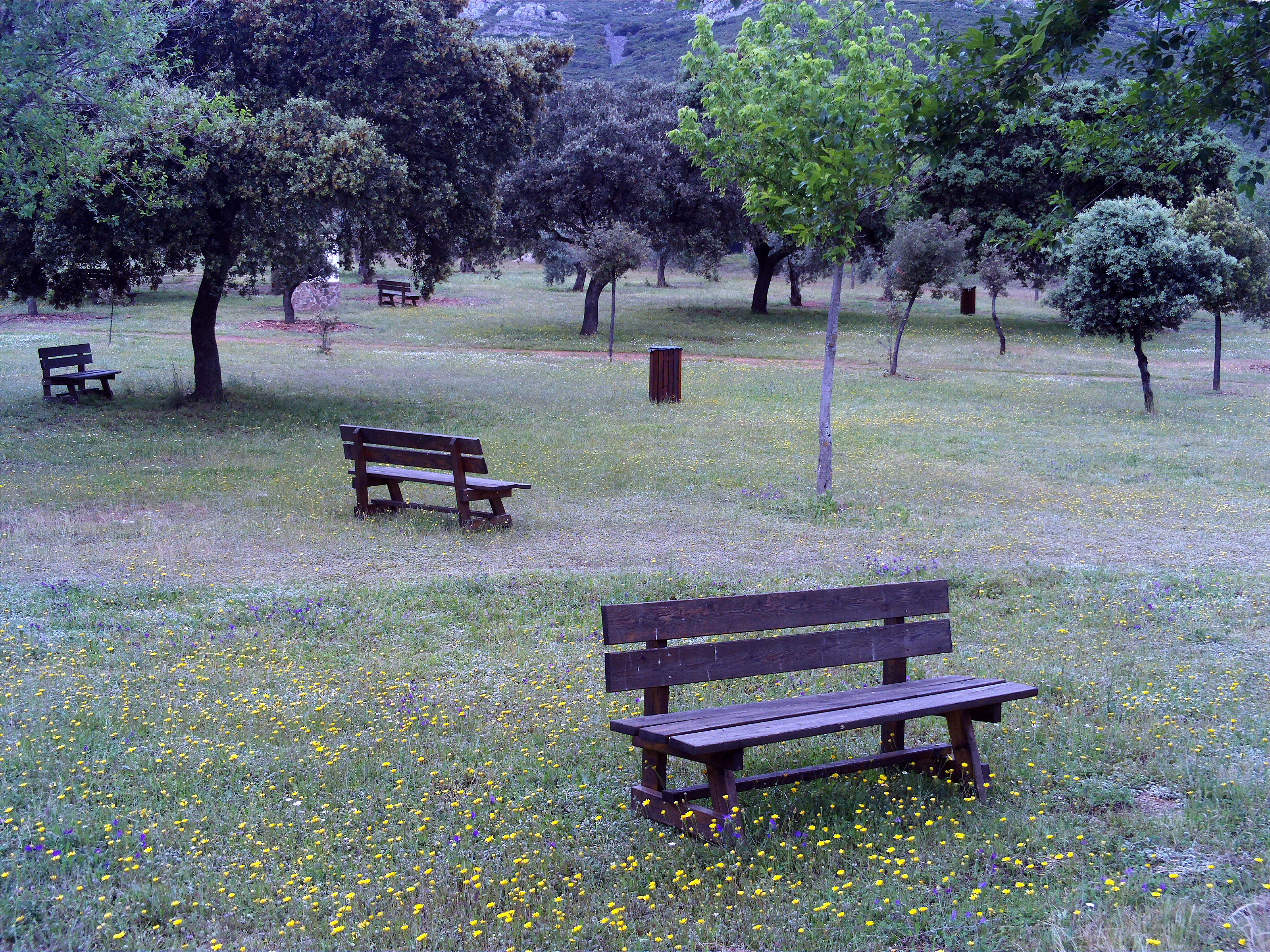 Park benches in Dehesa Boyal de Puertollano park, in Castile-La Mancha, Spain. May, 10, 2008